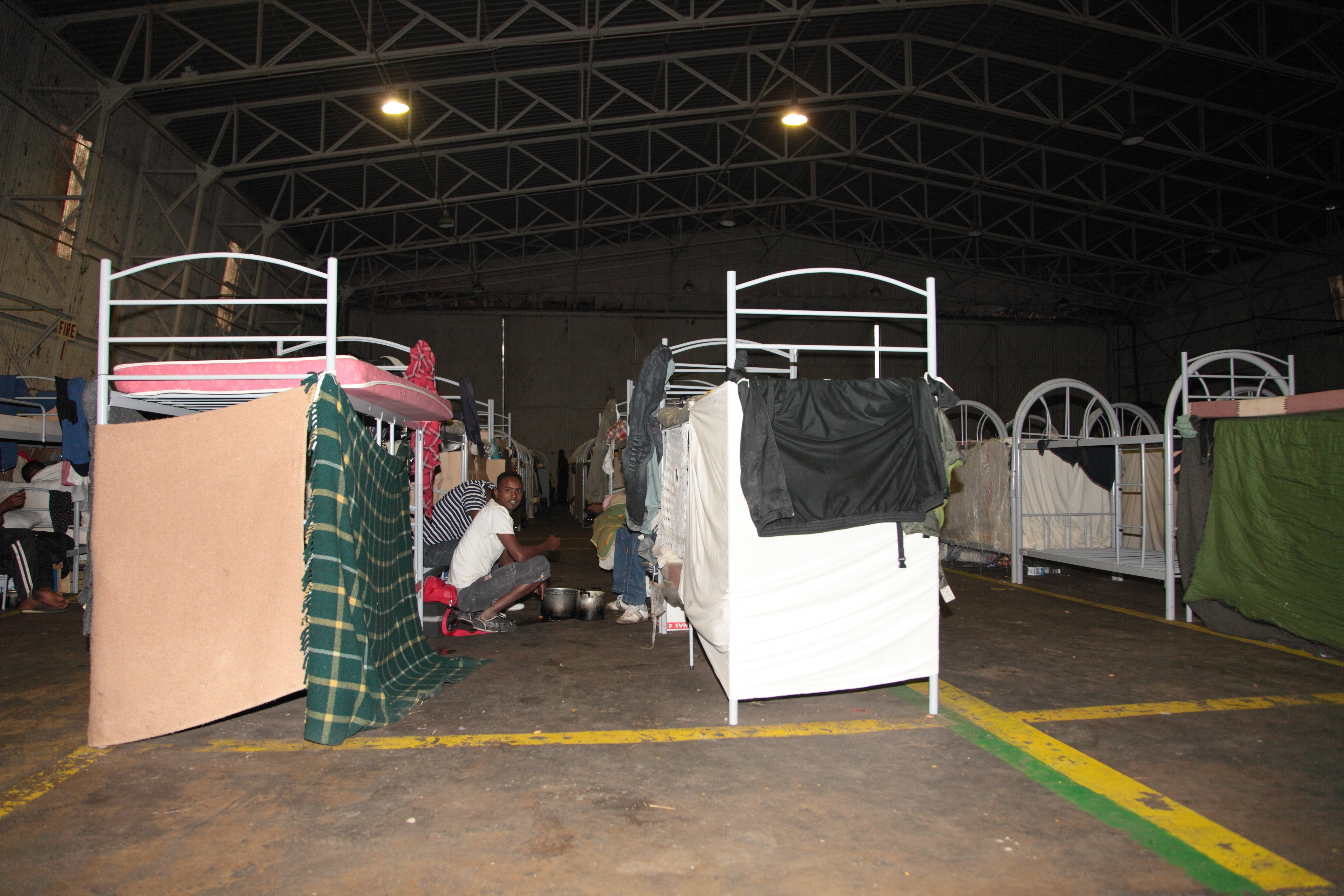 Hal Far: airplane hangar, inside, open centre for refugees